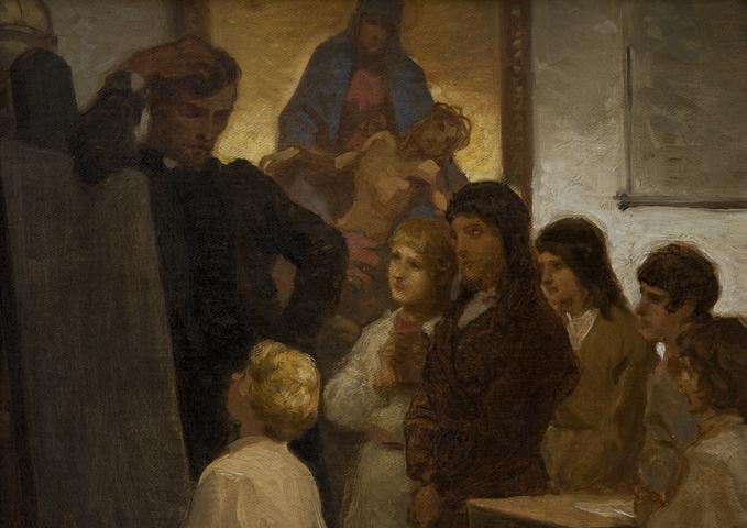 Arthur Grottger - part of the picture: "Szkółka wiejska we Wróblewicach" - oil painting on canvas from 1865. Other titles: Szkoła , W szkółce , Chłopięta , W szkółce wiejskiej , Szkółka wiejska . The painting was donated in 1958 by Anna Tarnowska i Urszula Miączyńską to the National Museum in Krakow, and remains today its collections. Identification and information on the basis of: „Nowoczesne malarstwo polskie. Katalog zbiorów pod redakcją Zofii Gołubiew”, in series: „Katalogi zbiorów Muzeum Narodowego w Krakowie”, „Część 1 – Malarstwo polskie XIX wieku”, Halina Blak, Barbara Małkiewicz, Elżbieta Wojtałowa, Krakow, 2001, p. 113, position 291.